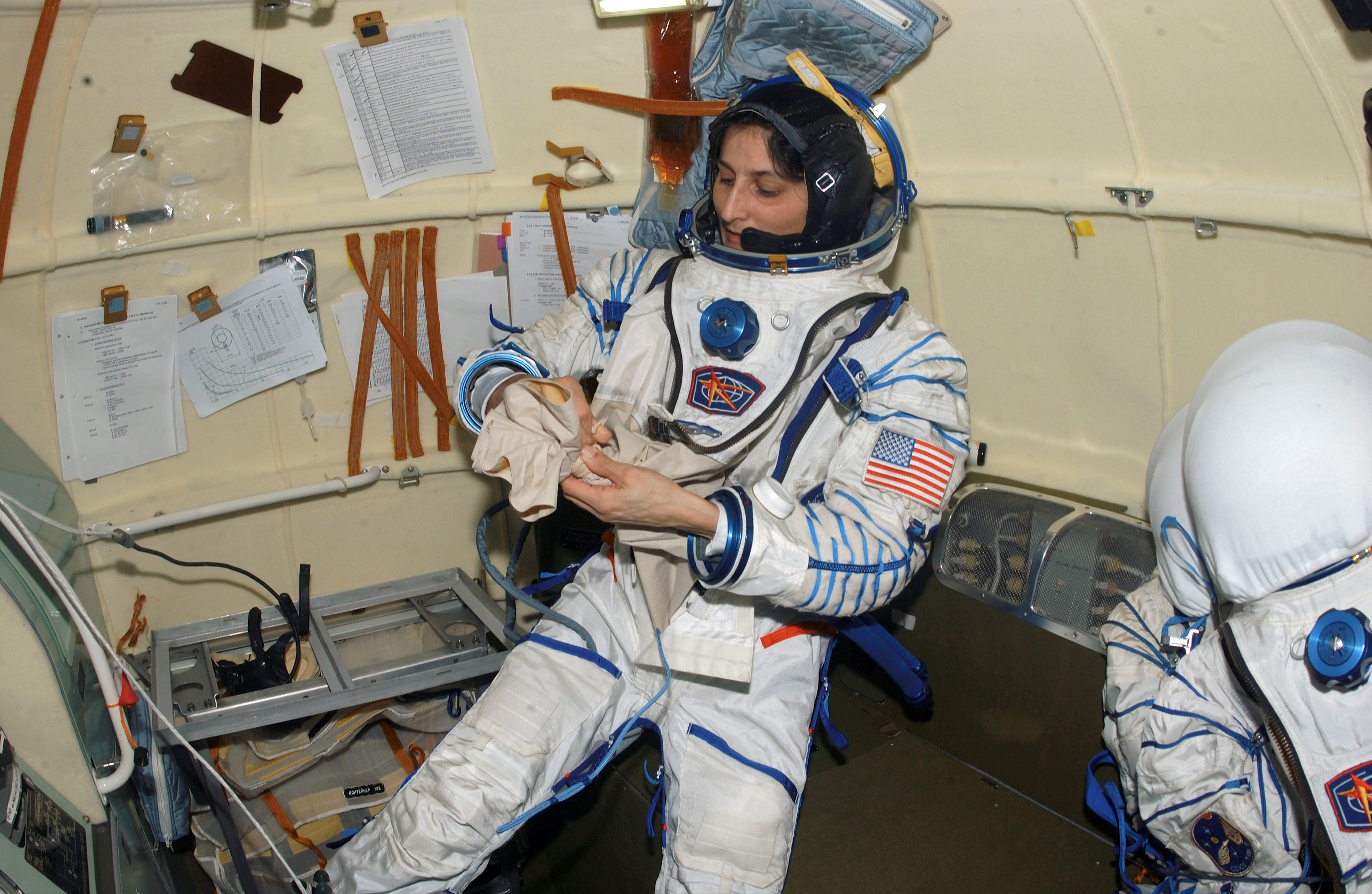 Astronaut Sunita L. Williams, Expedition 14 flight engineer, dons her Russian Sokol launch and entry suit in the Soyuz 13 (TMA-9) spacecraft docked to the International Space Station. Williams along with astronaut Michael E. Lopez-Alegria (out of frame), commander and NASA space station science officer, and cosmonaut Mikhail Tyurin (out of frame), Soyuz commander and flight engineer representing Russia's Federal Space Agency, later relocated the Soyuz from the Zarya Module nadir port to the Zvezda Service Module aft port in preparation for the arrival of Expedition 15.